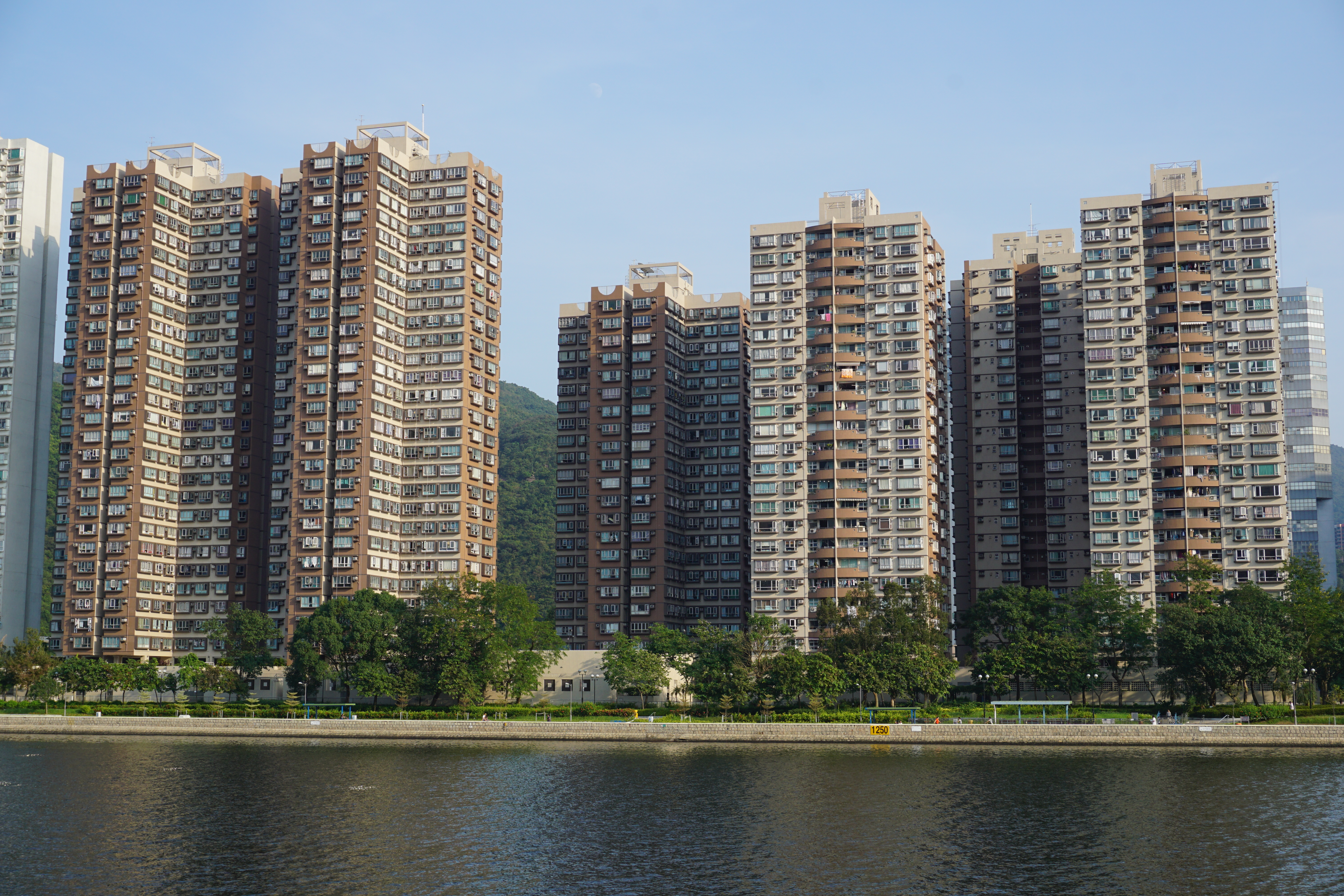 Garden Vista in Shek Mun, Hong Kong.